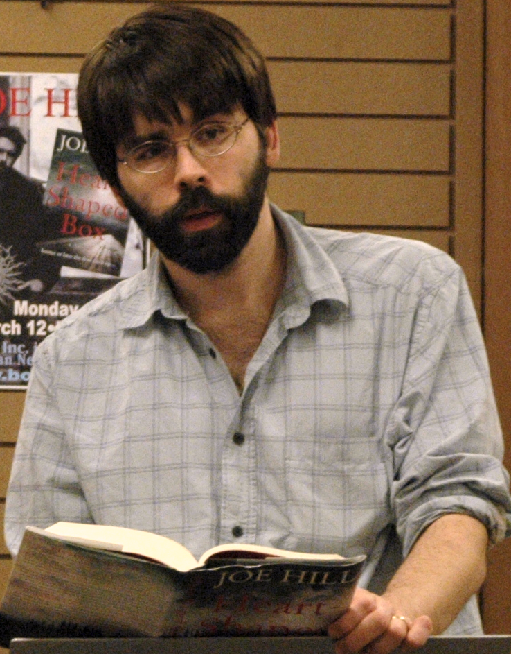 Joe Hill at a book signing.